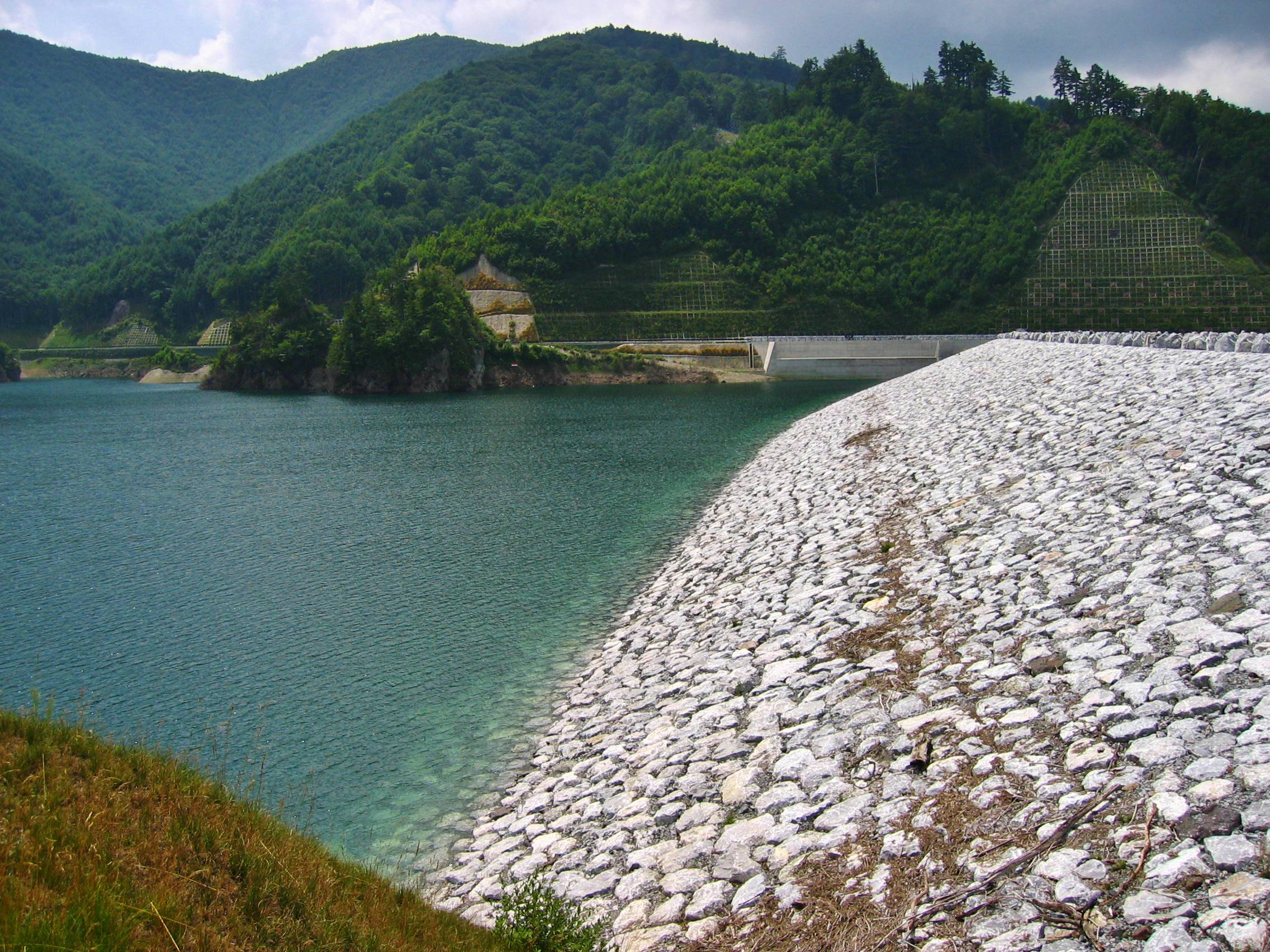 Minamiaiki Dam.